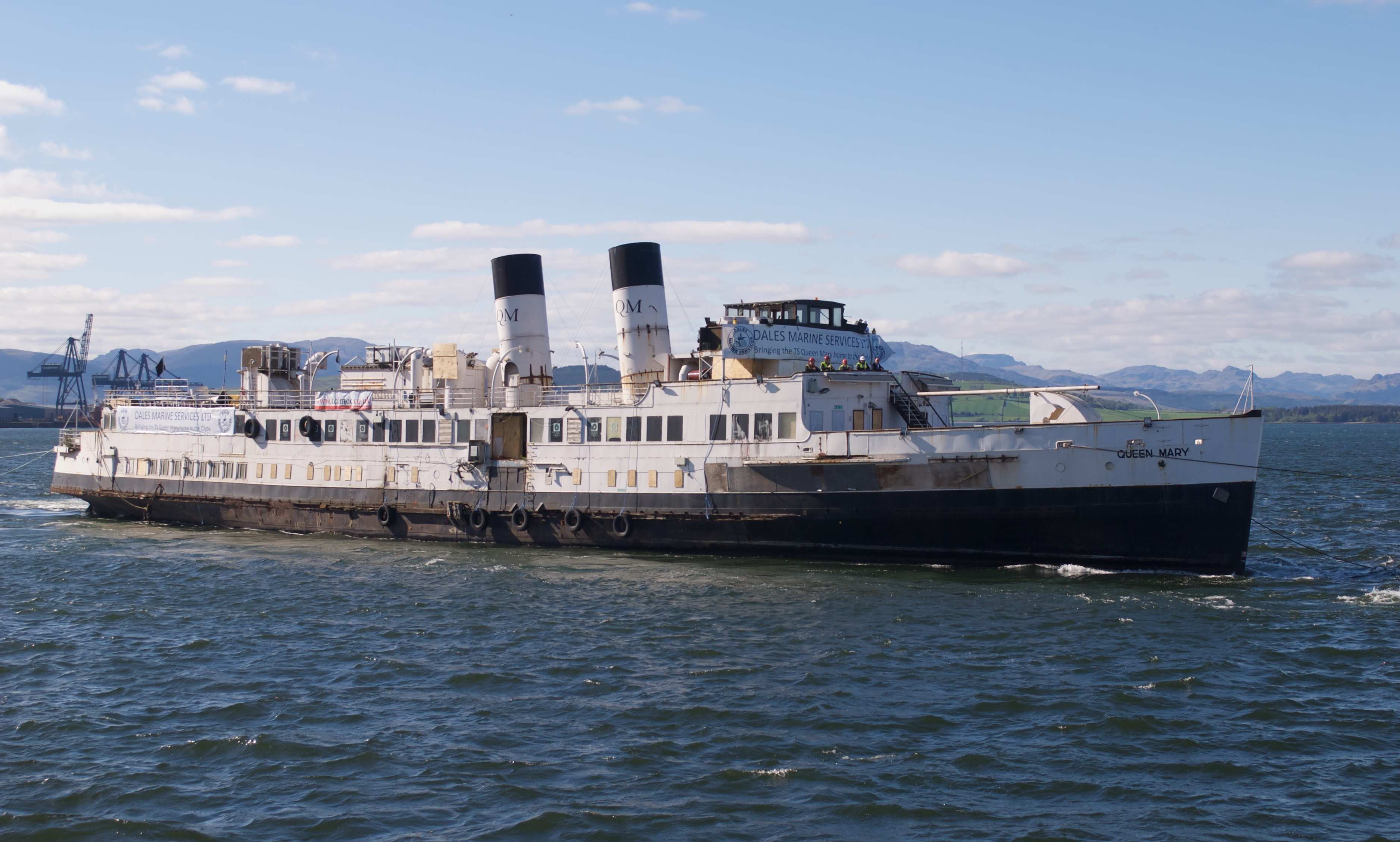 TS Queen Mary arriving back at Greenock, and entering the James Watt Dock prior to restoration work in the Garvel Dry Dock.